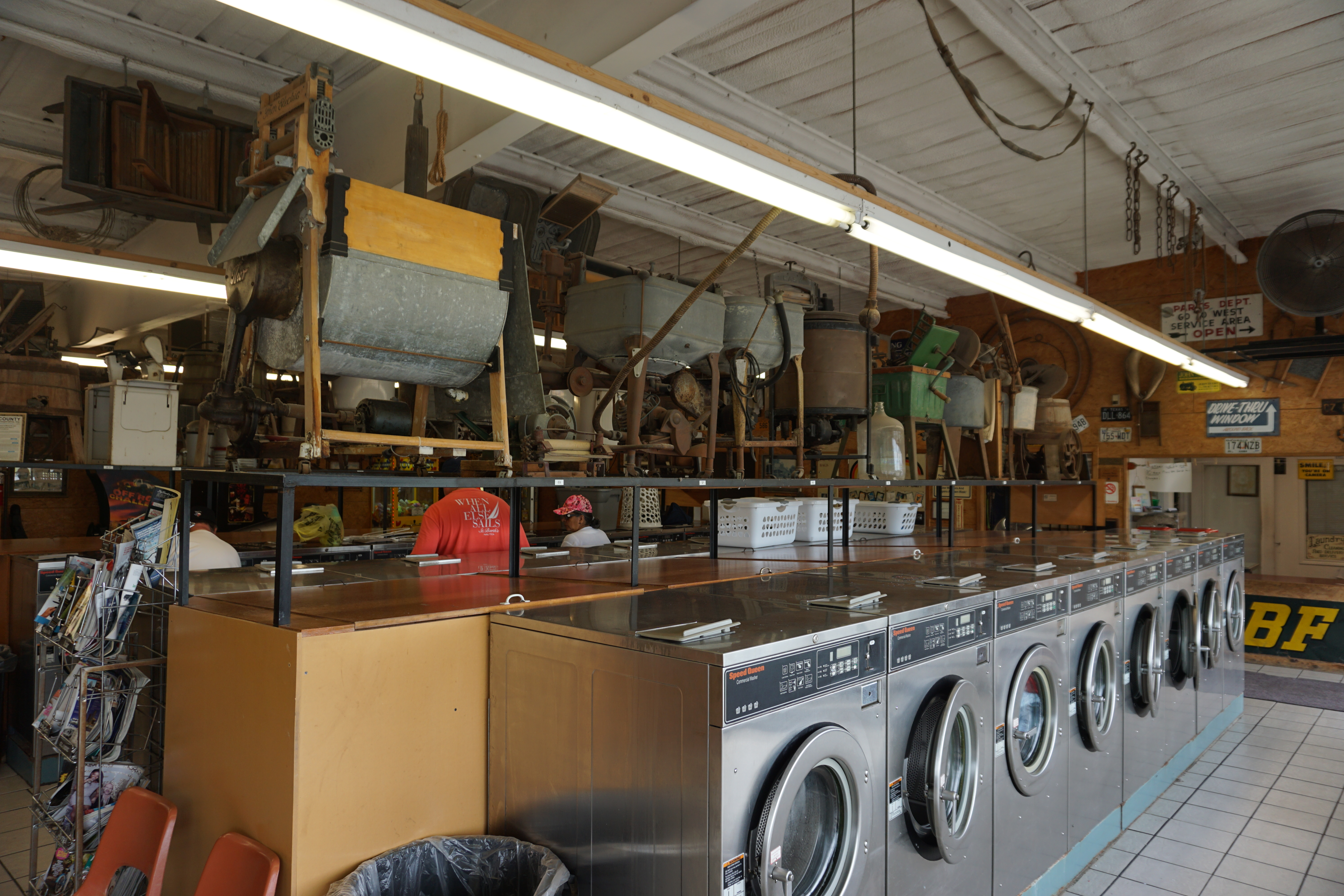 The interior of The Laumdronat and Washing Machine Museum in Mineral Wells, Texas (United States).